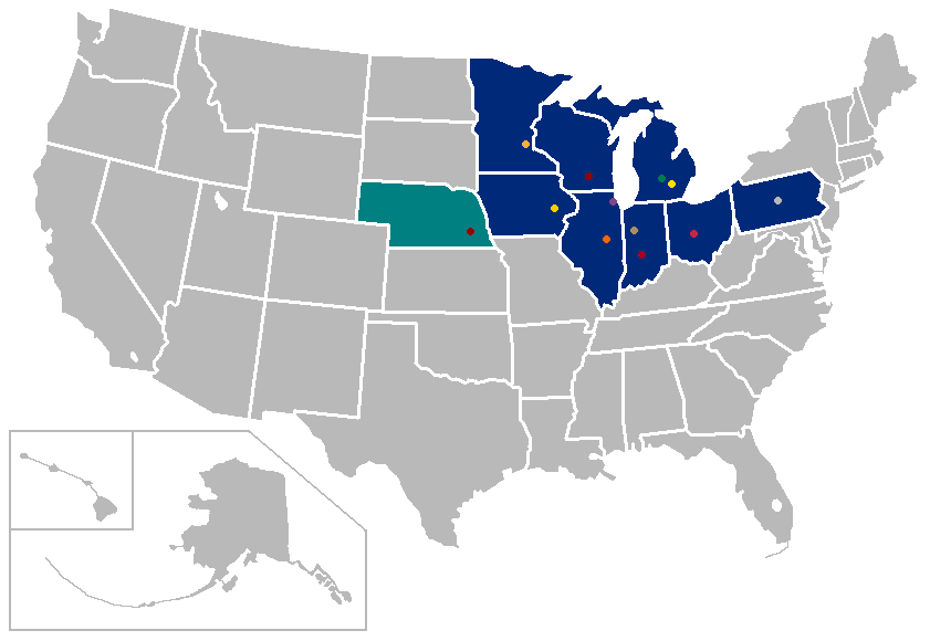 Derived from [1]; map of states with Big Ten schools